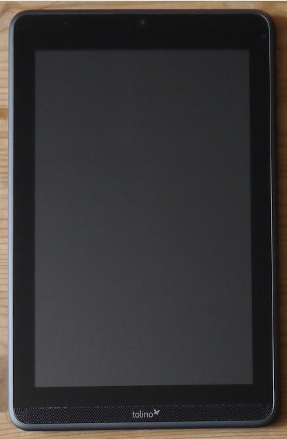 Tolino Tab 8.9" (Android tablet computer)